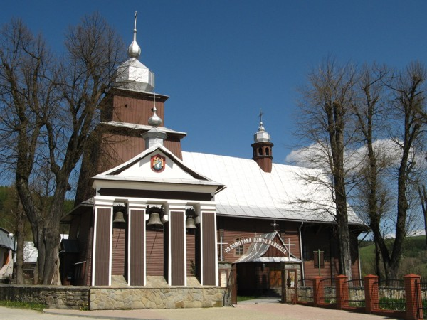 Church in Tylicz, PL